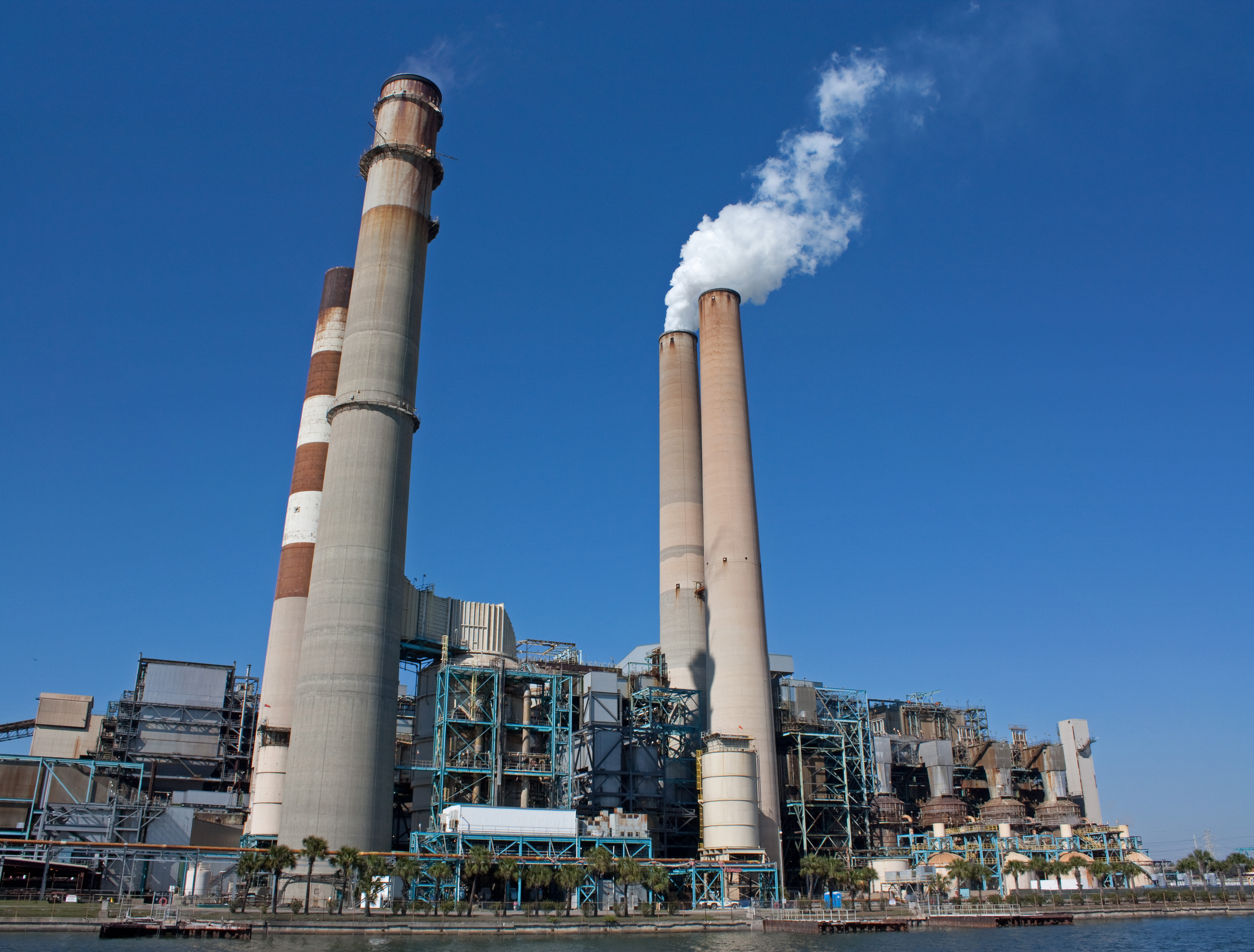 Big Bend Power Station near Apollo Beach, Florida. Warm water from the plant is a favorite habitat for Florida manatees during the winter so a manatee viewing station is nearby (where this photo was taken). This image was created with Photoshop Photomerge (stitched images may differ from reality).